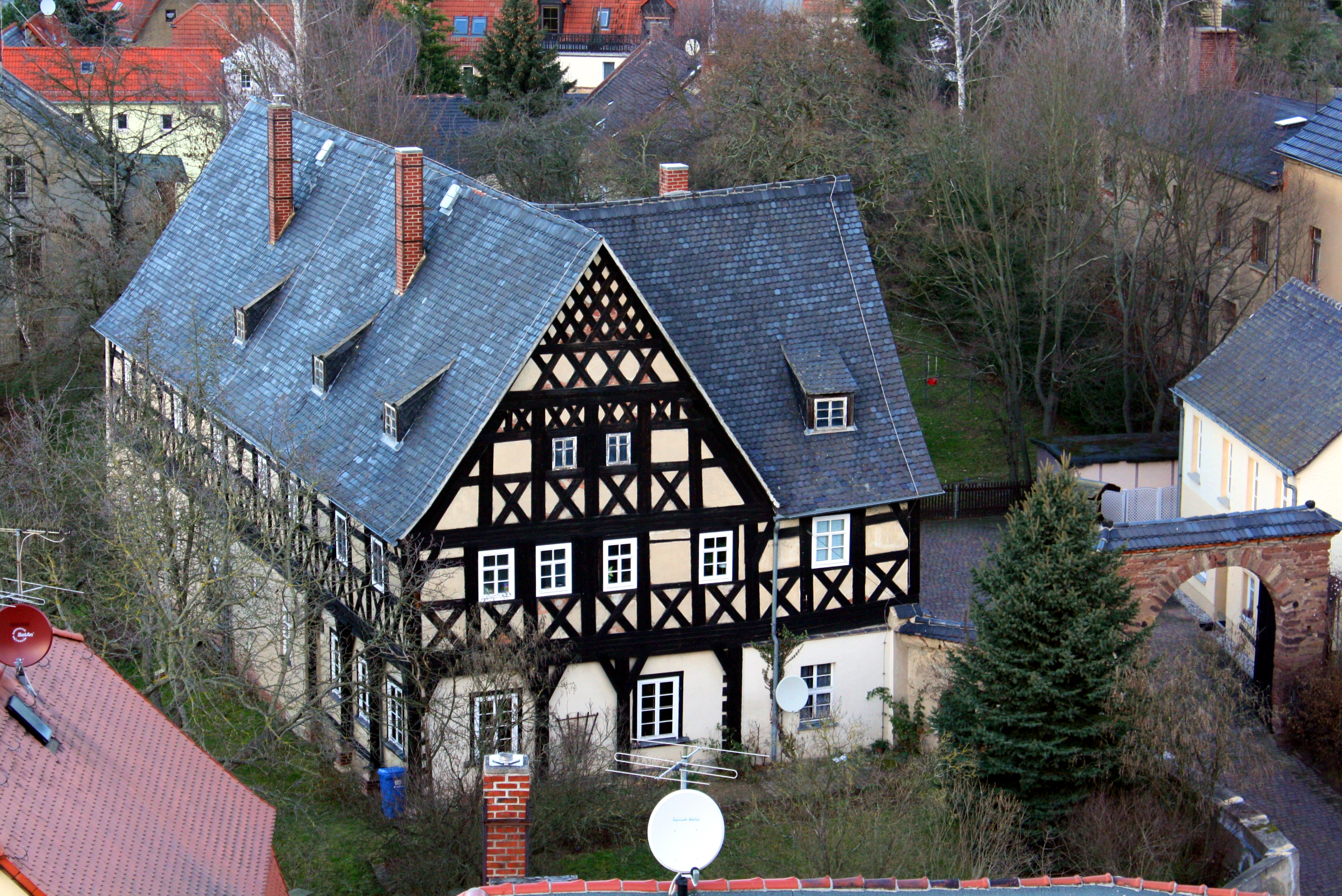 Vicarage in Gößnitz near Altenburg/Thuringia